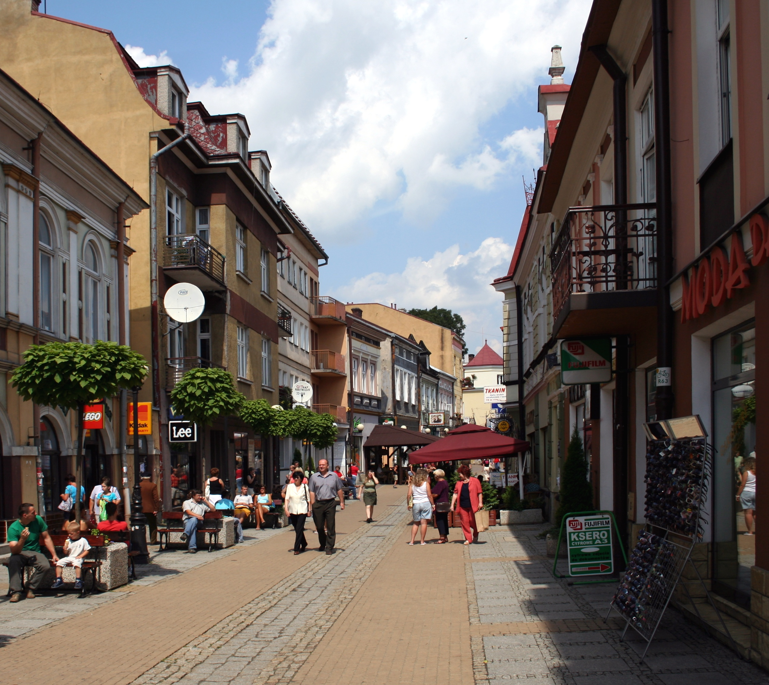 The city center in Sanok, Poland